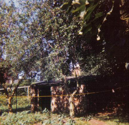 The old farm stable block at Woodway House, Teignmouth, South Devon. This building used to have two stories.